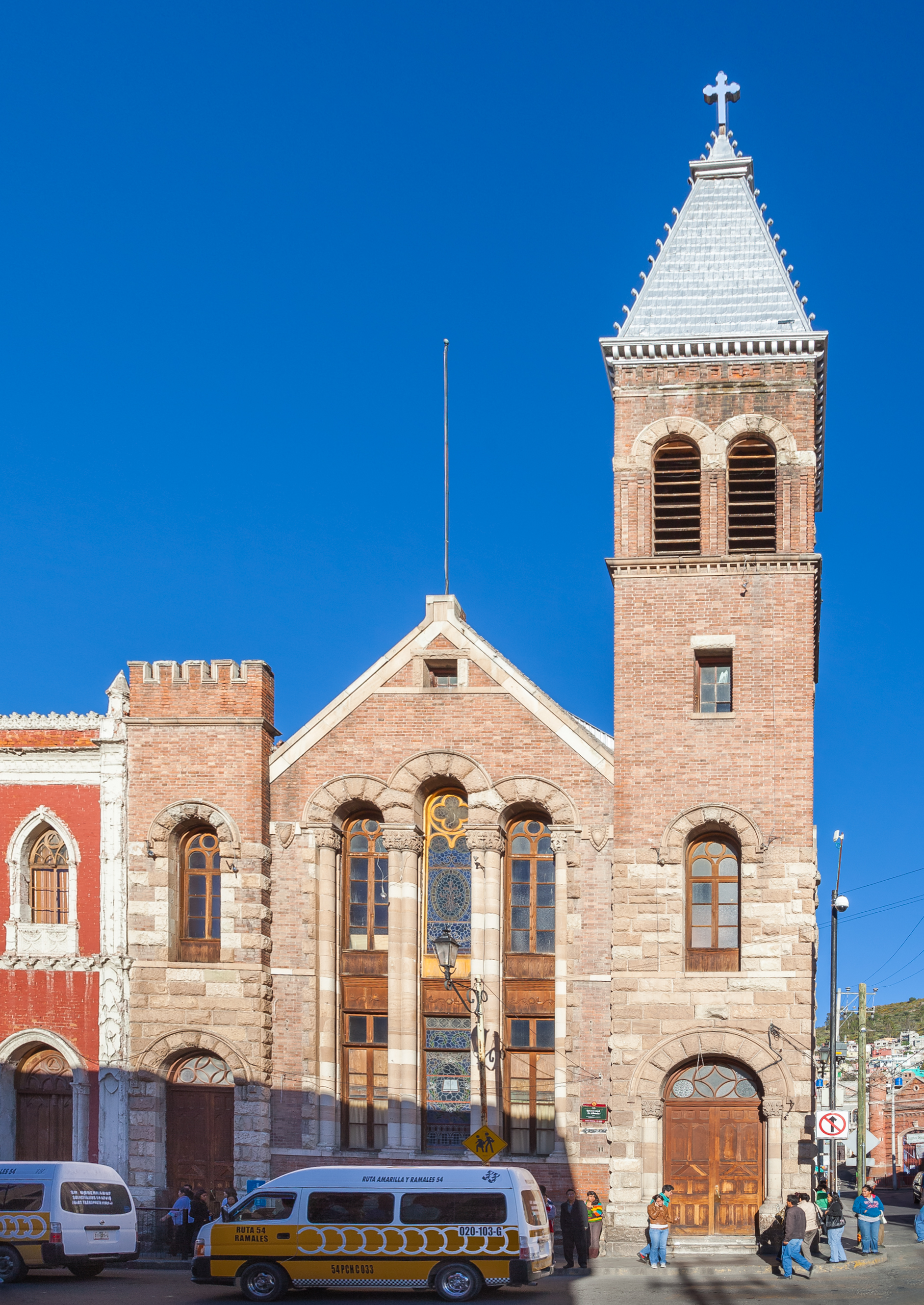 Methodist Church of the Divine Salvator, Puebla, Mexico